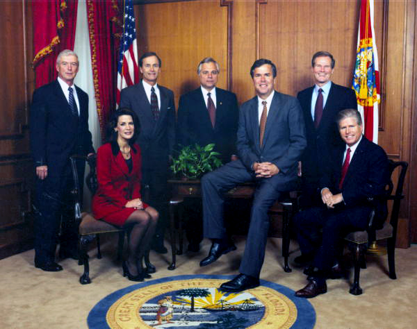 L-R: Comptroller Robert F. Milligan, Secretary of State Katherine Harris, Commissioner of Agriculture Robert B. Crawford, Attorney General Robert Butterworth, Governor John Ellis Bush, Treasurer C. William Nelson, Commissioner of Education Charles Thomas Gallagher.